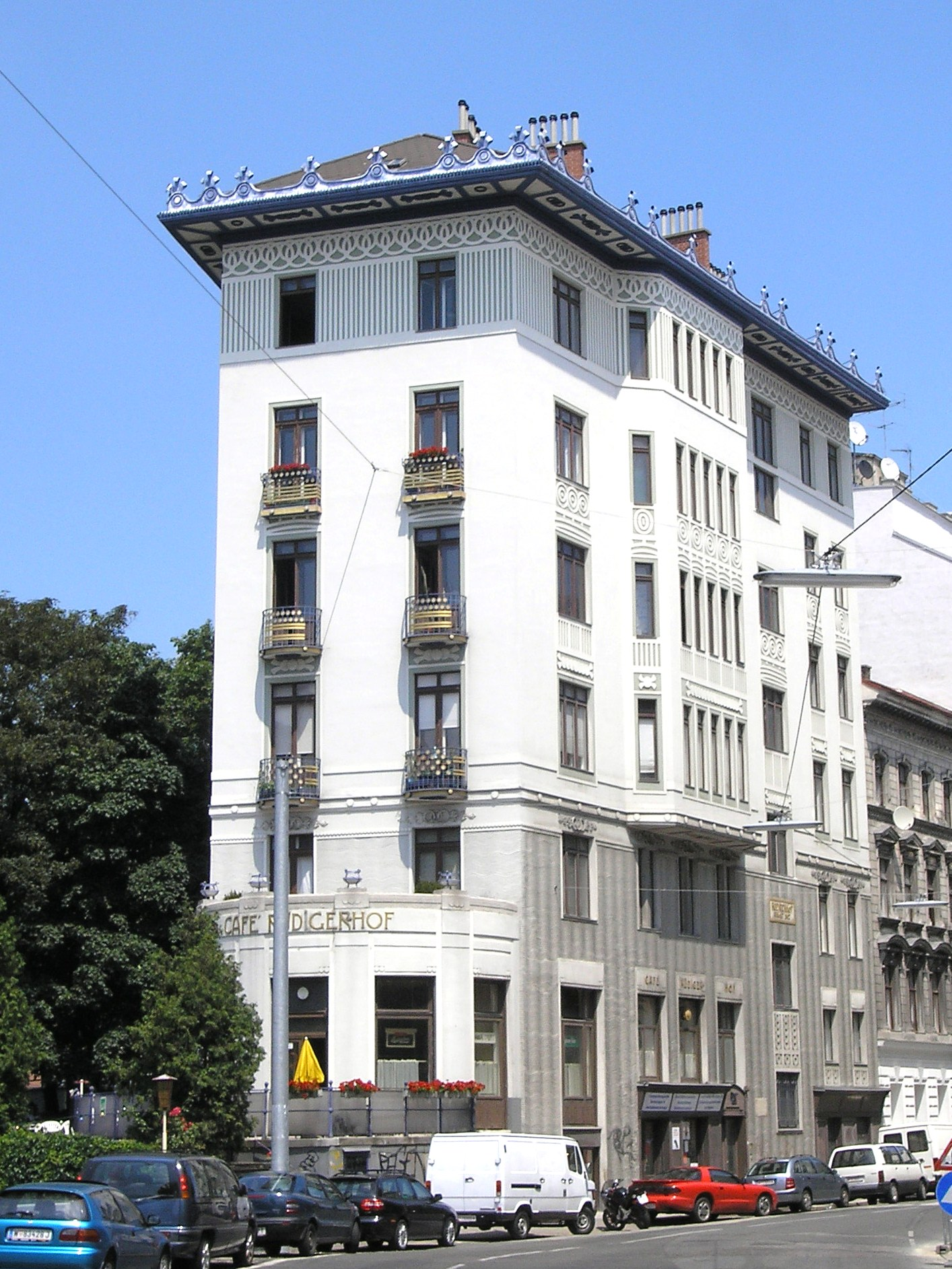 Image of the Rüdigerhof (or also Rüdiger-Hof) on the Rechte Wienzeile in Vienna. Constructed by Oskar Marmorek, a student of Otto Wagner, in 1902 in the Vienna Jugendstil.